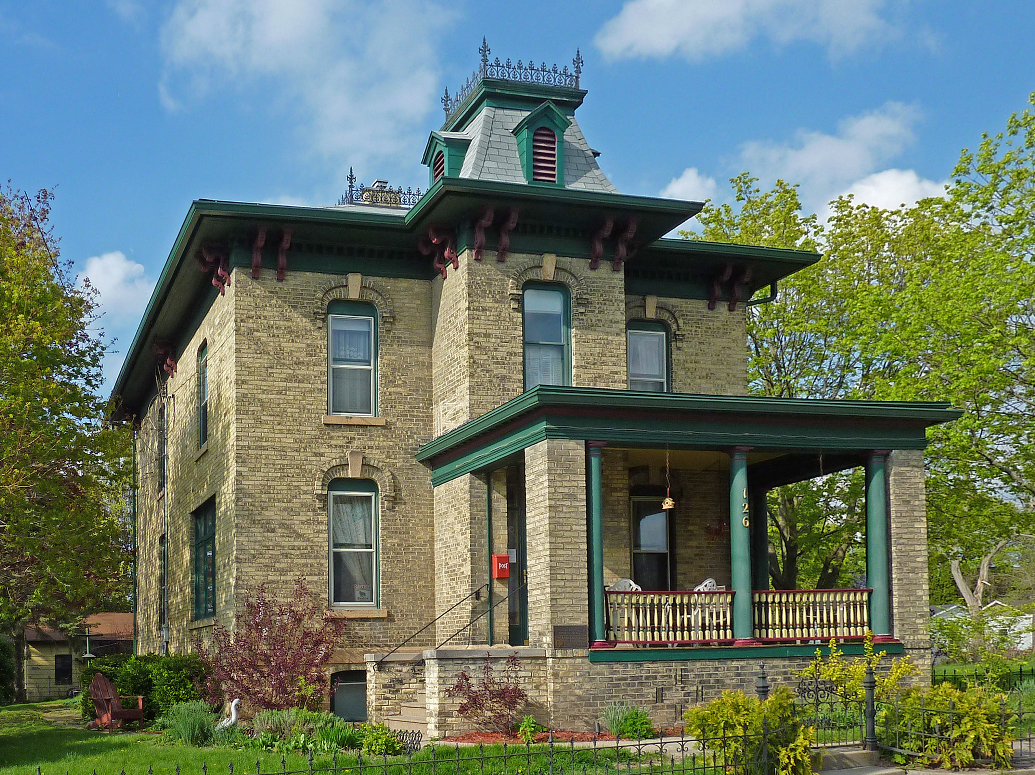 The Jens Naeset House at 126 E. Washington Street in Stoughton, Wisconsin, was built in 1878 and added to the National Register of Historic Places in 1985.